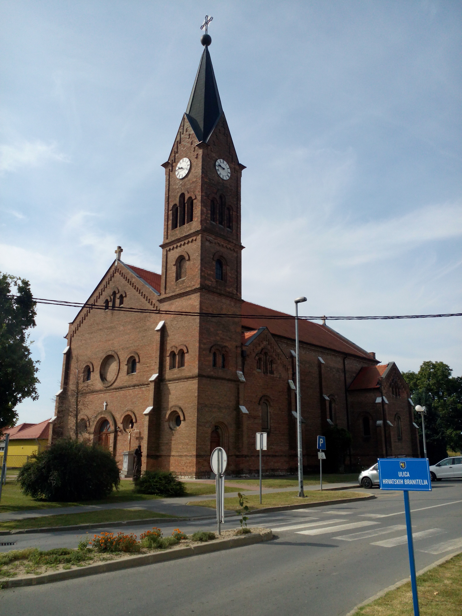 Sacred Heart of Jesus Parish Church, Čeminac.